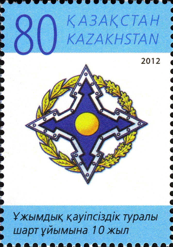 Stamps of Kazakhstan, 2012